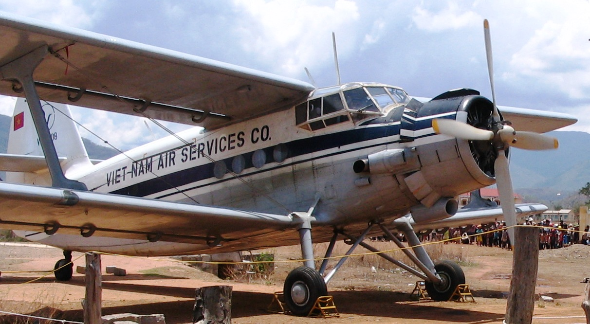 An-2 of Vasco in Vietnam, 2005Tiếng Việt: An-2 của Công ty bay dịch vụ hàng không VASCO, Việt Nam, 2005.